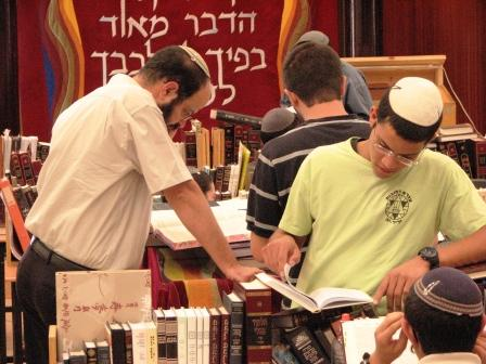 Studying hall